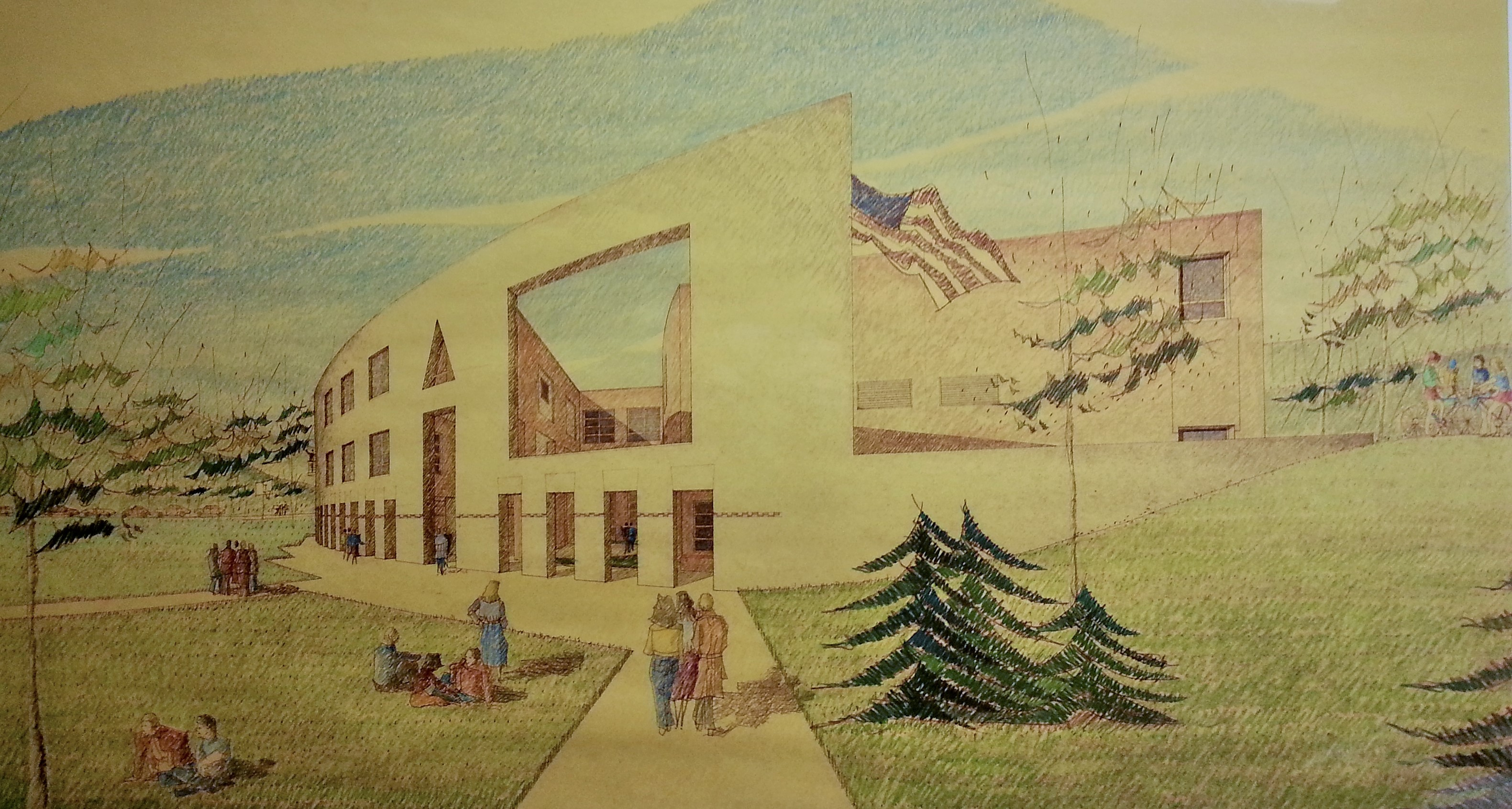 Photo taken by Chet Dagit of an architectural rending by Charles E. Dagit Jr. on January 5, 2013. Architectural Drawing of Shippensburg University Cumberland Union building, reproduced as a photograph with permission from the artist.